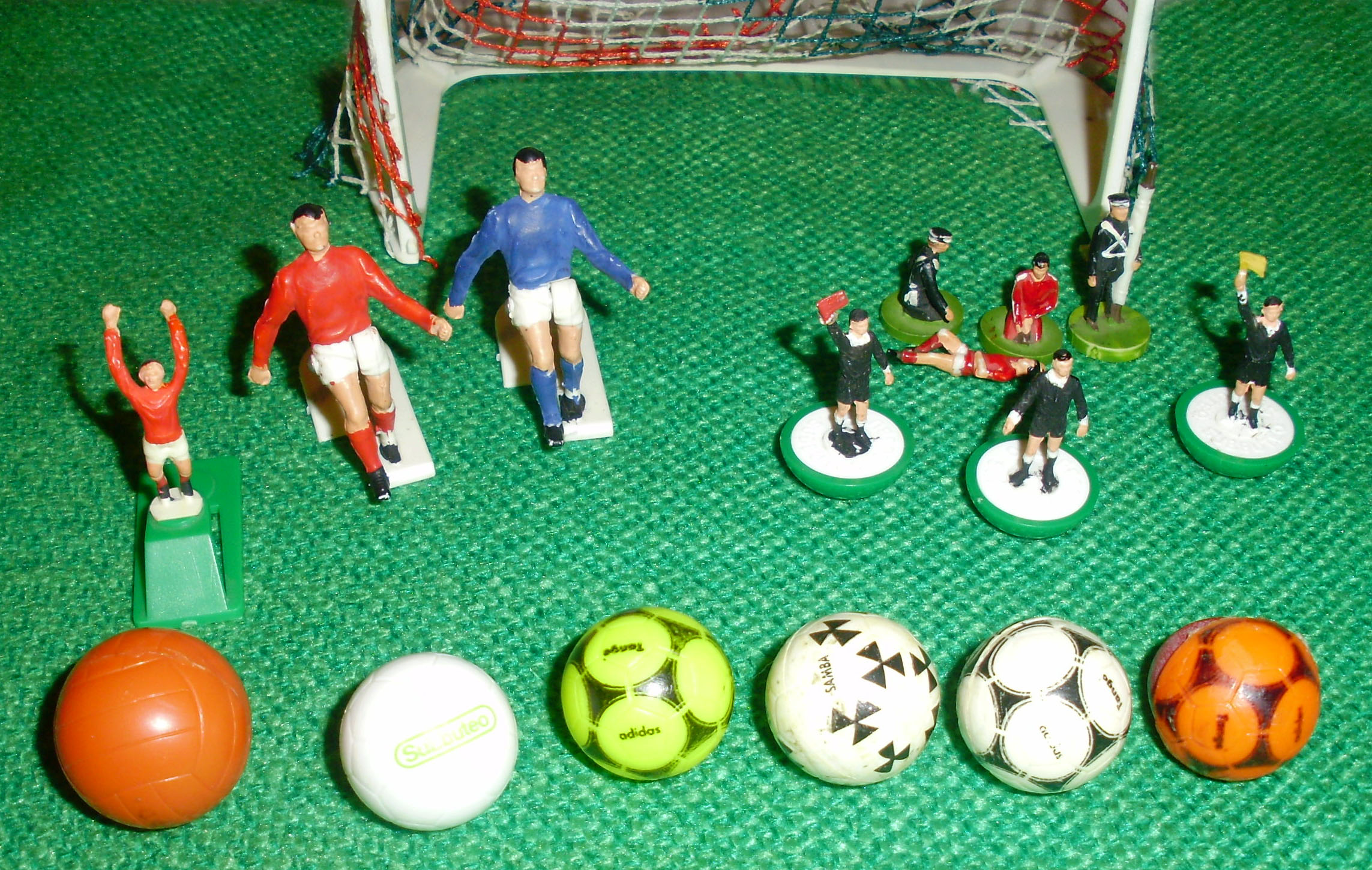 Subbuteo extras